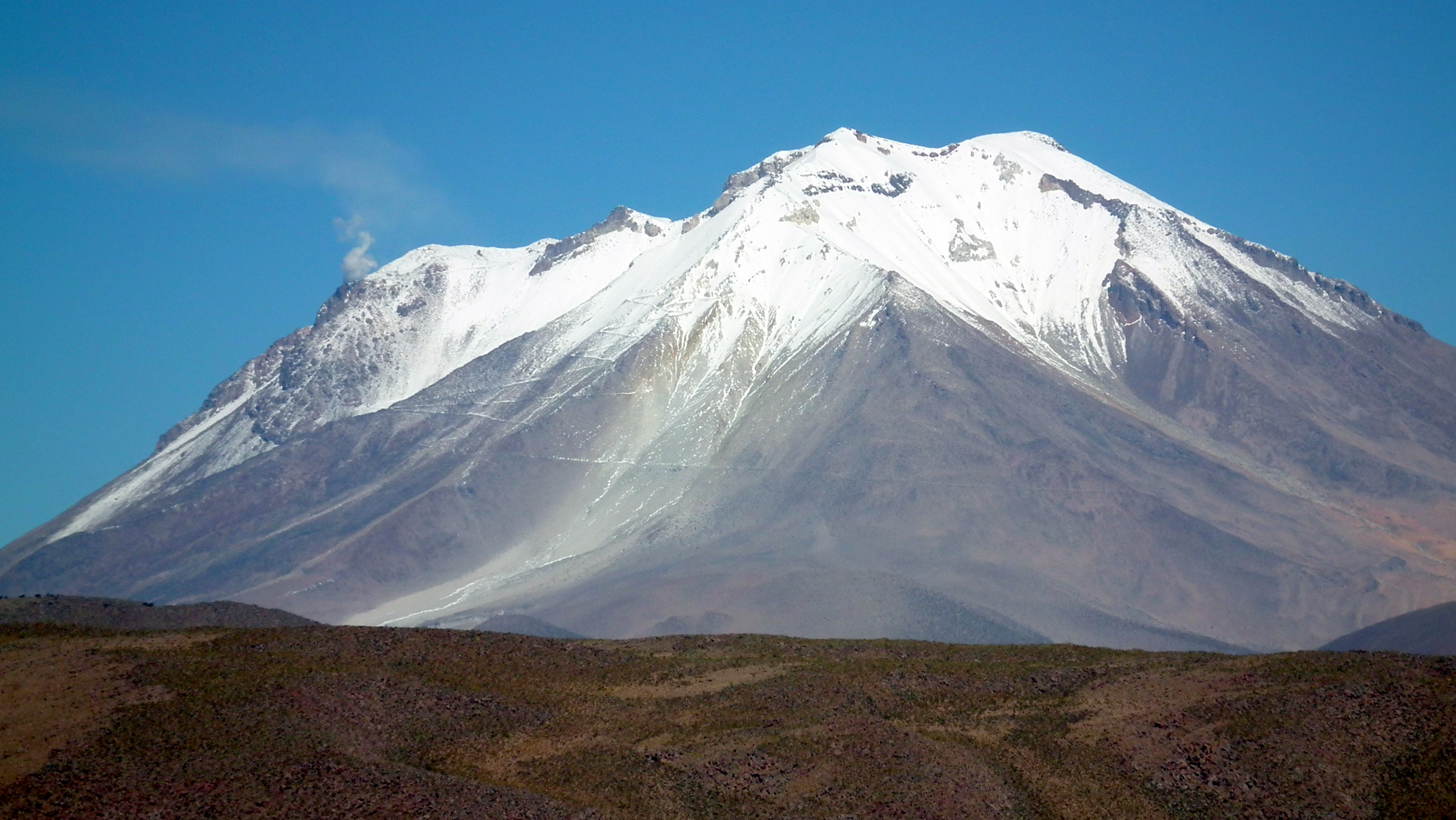 Volcano Ollagüe as seen from Bolivia (road from Avaroa to Villa Alota). Note the fumarole on the left and the road to the old sulfur mine.